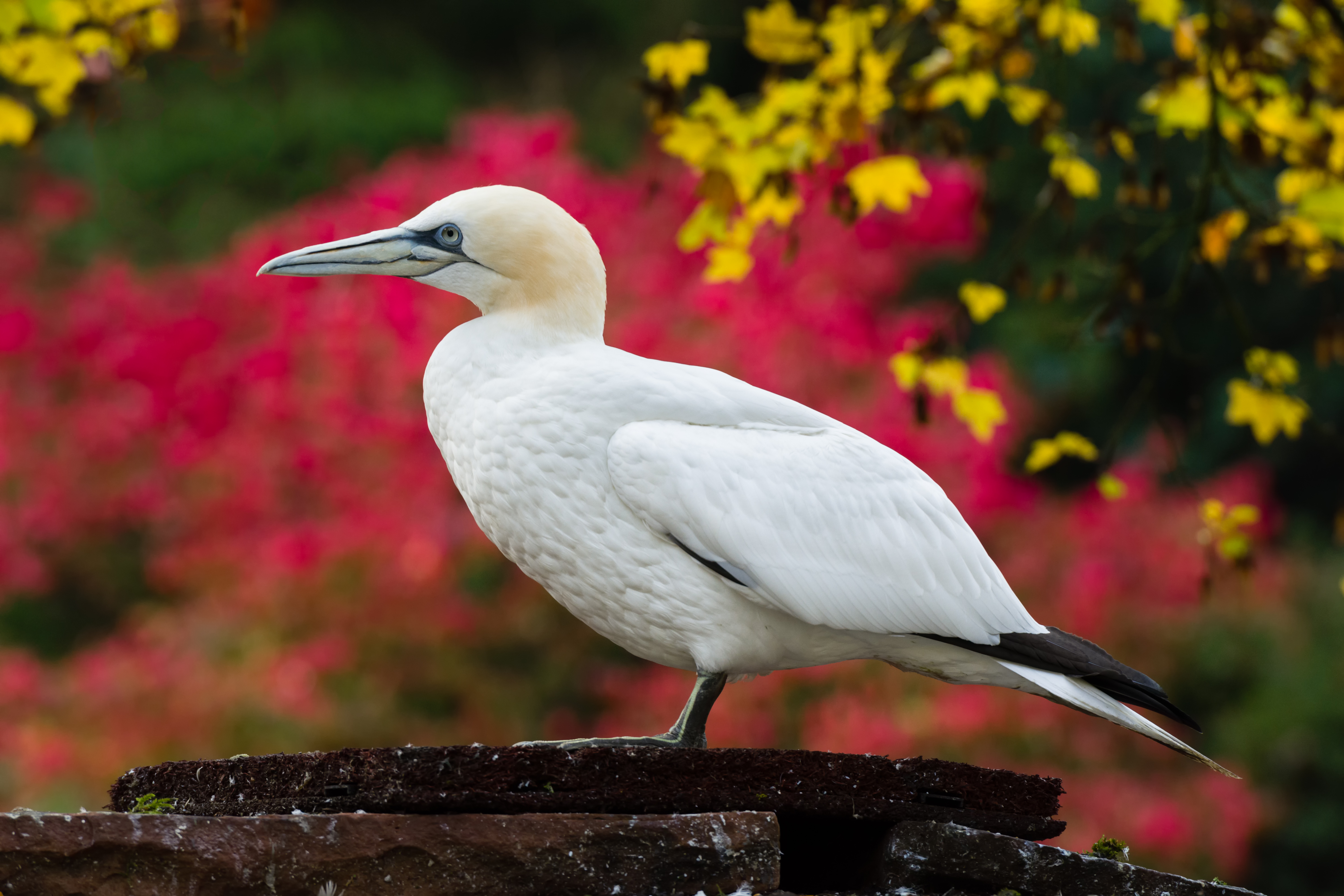 Northern gannet(Morus bassanus) in Weltvogelpark Walsrode